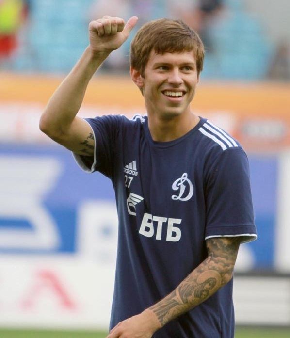 Fedor Smolov